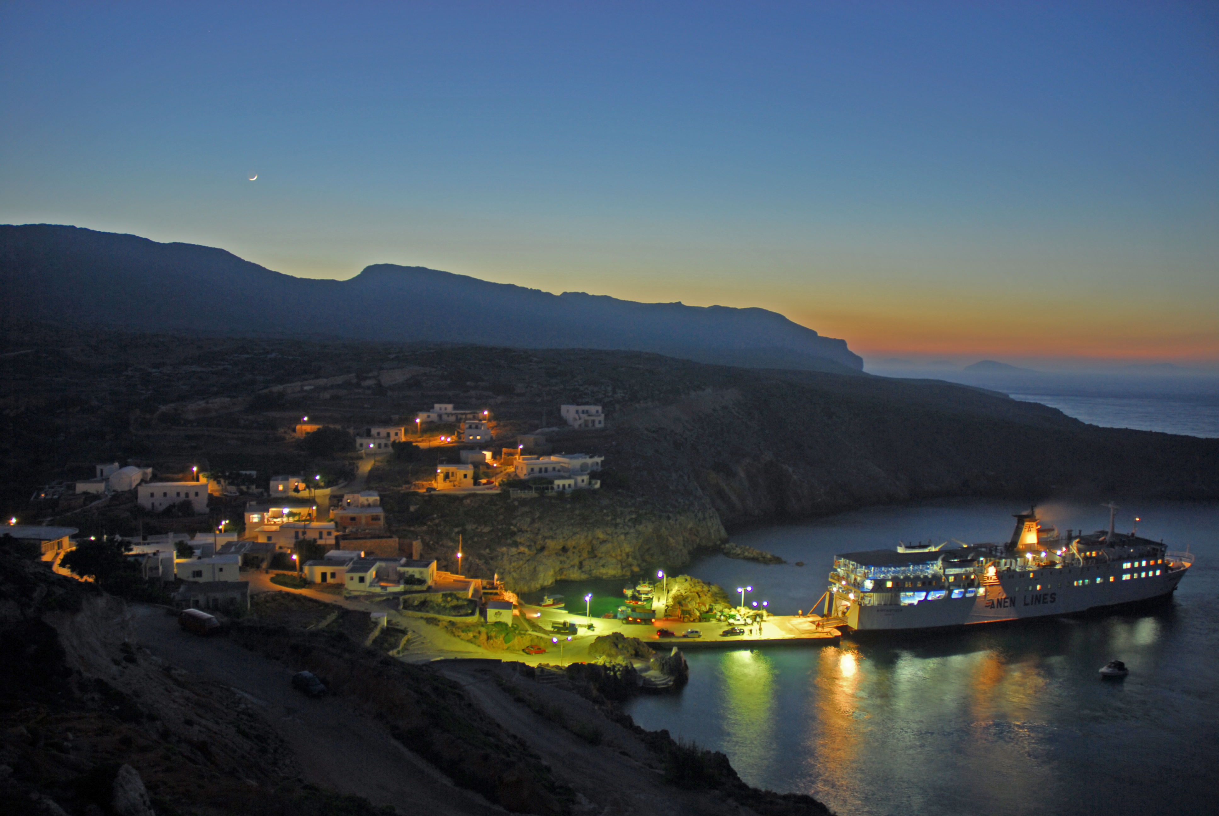 The harbour of Potamos at night, the island of Kythera is visible in the background, as is the southern tip of the Peloponnese